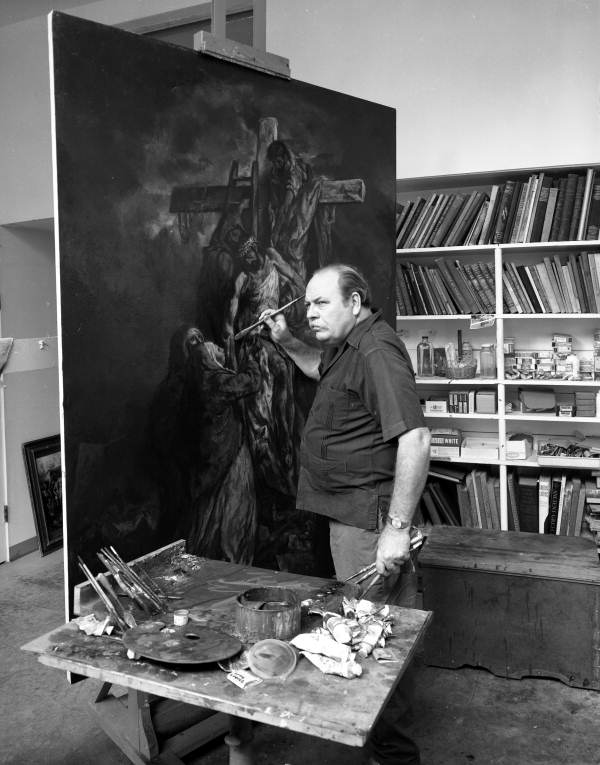 Local call number: JJS0518 Title: Artist Ben Stahl: Sarasota, Florida Date: May 5, 1966 General Note: The artist at work on "Descent from the Cross" for his Sarasota Museum of the Cross. Physical descrip: 1 photonegative - b&w - 5 x 4 in. Series Title: Joseph Janney Steinmetz Collection Repository: State Library and Archives of Florida , 500 S. Bronough St., Tallahassee, FL 32399-0250 USA. Contact: 850.245.6700. Persistent URL